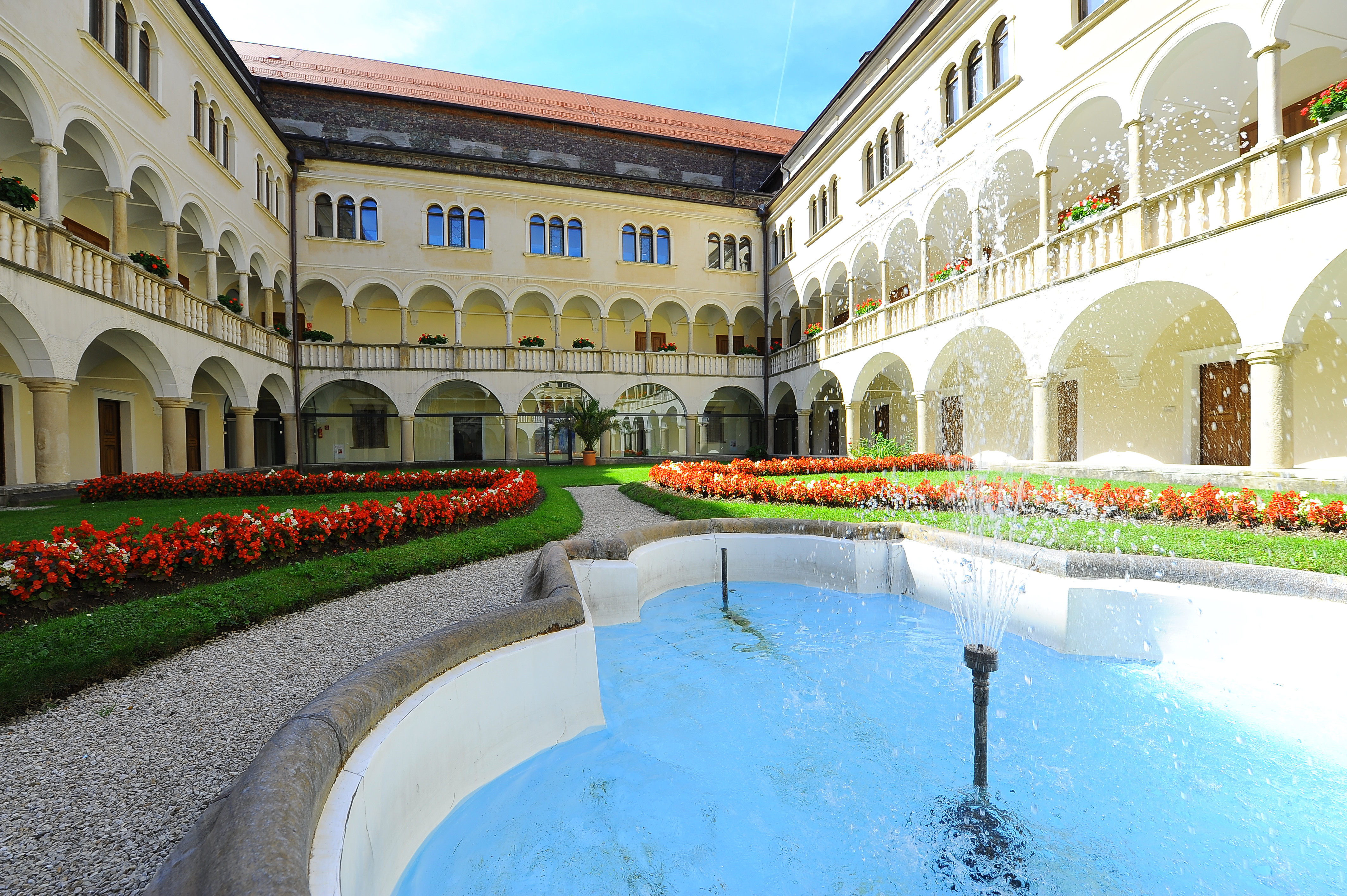 Arcade yard of castle Tanzenberg, municipality Sankt Veit an der Glan, district Sankt Veit an der Glan, Carinthia, Austria, EU